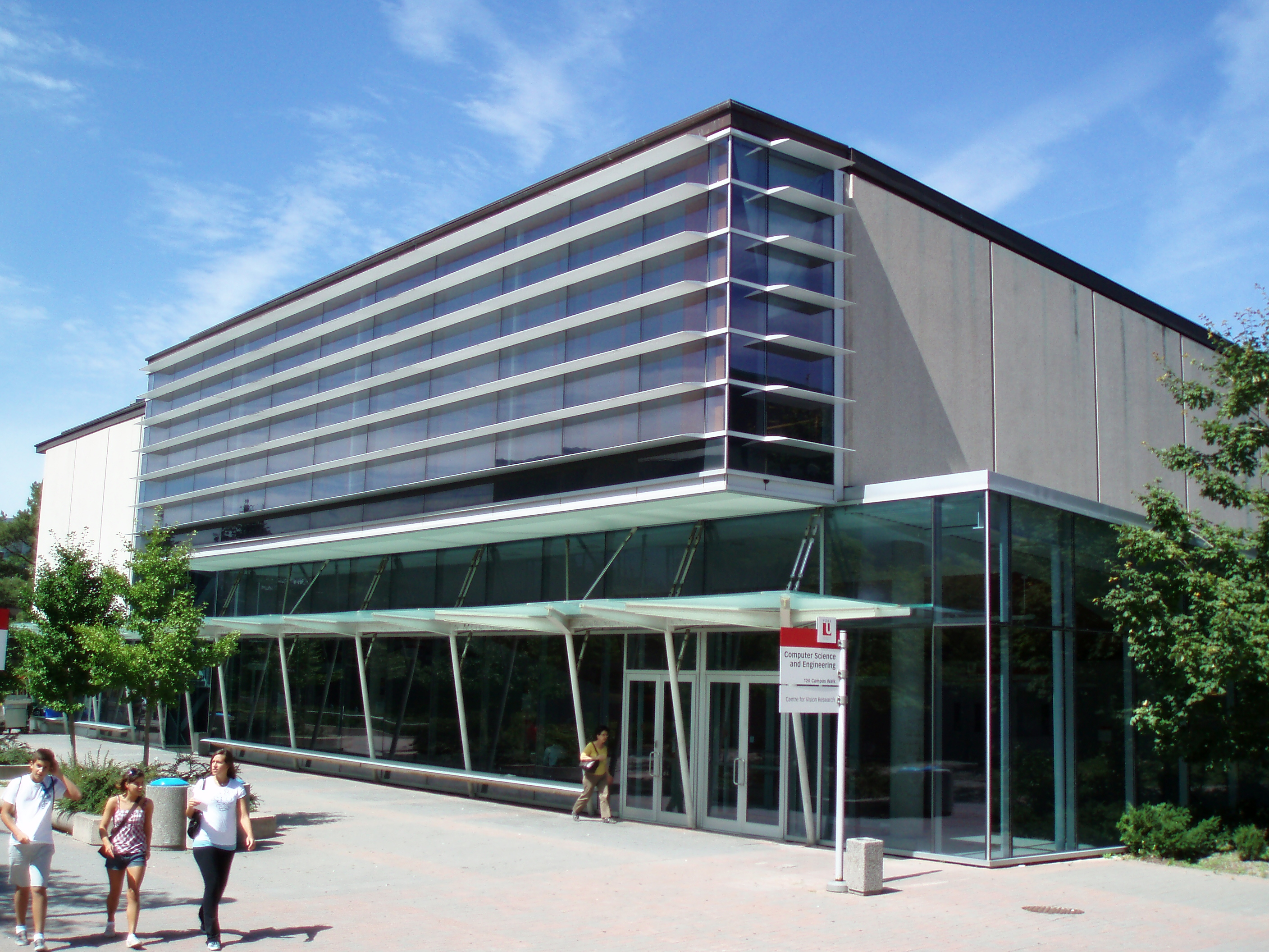 Computer Science and Engineering Building (CSE), York University